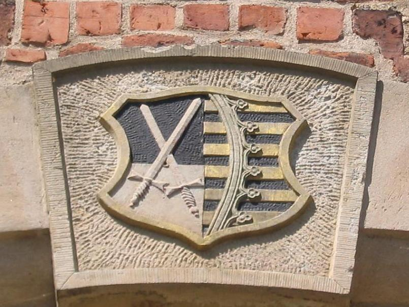 Castle Eisenhardt in Belzig, saxony coat of arms at Portal. Belzig is the central town of the district Potsdam-Mittelmark in the state Brandenburg of Germany. Belzig appertains to the natural preserve Naturpark Hoher Fläming.